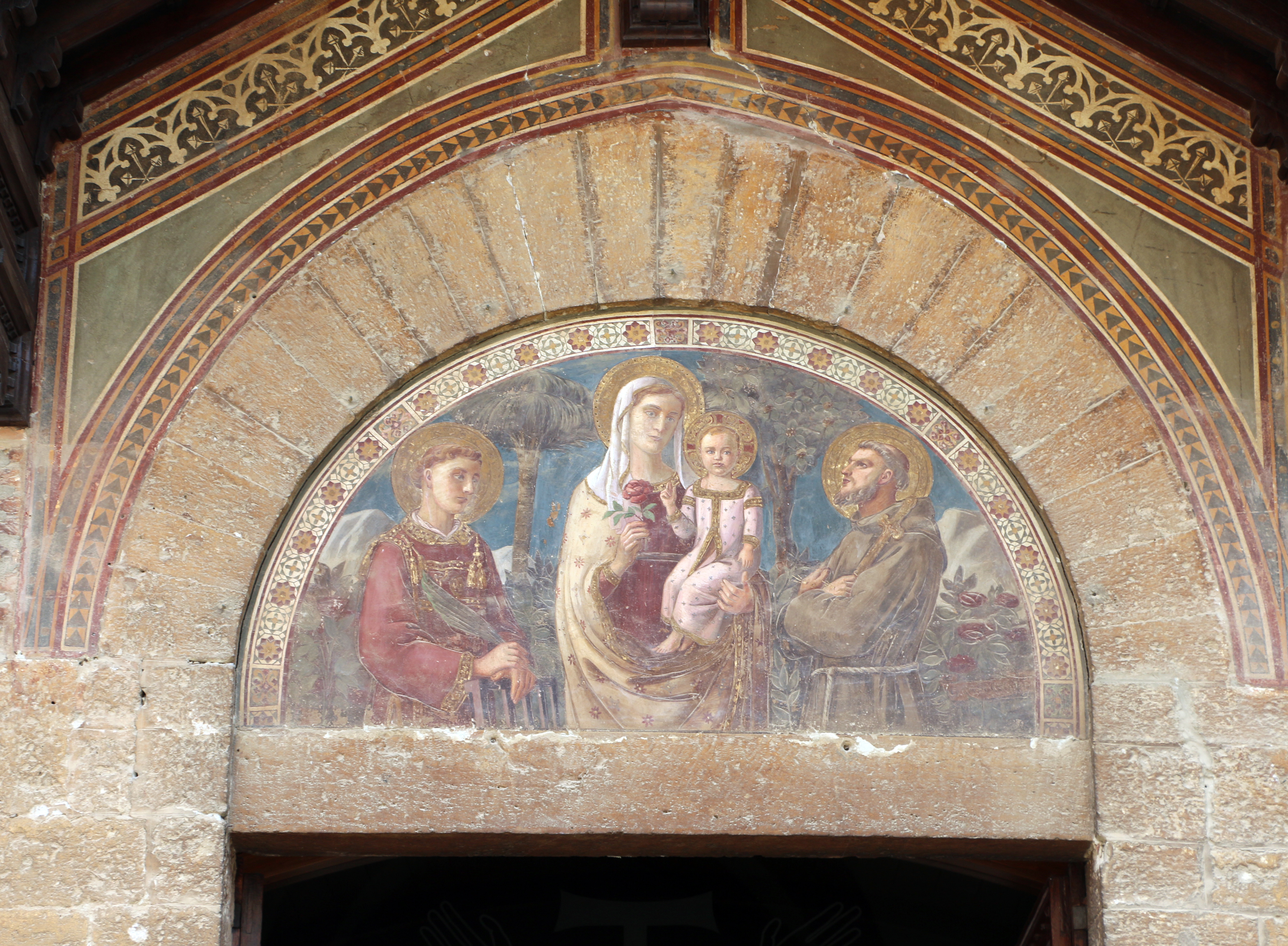 San Francesco (Grosseto)